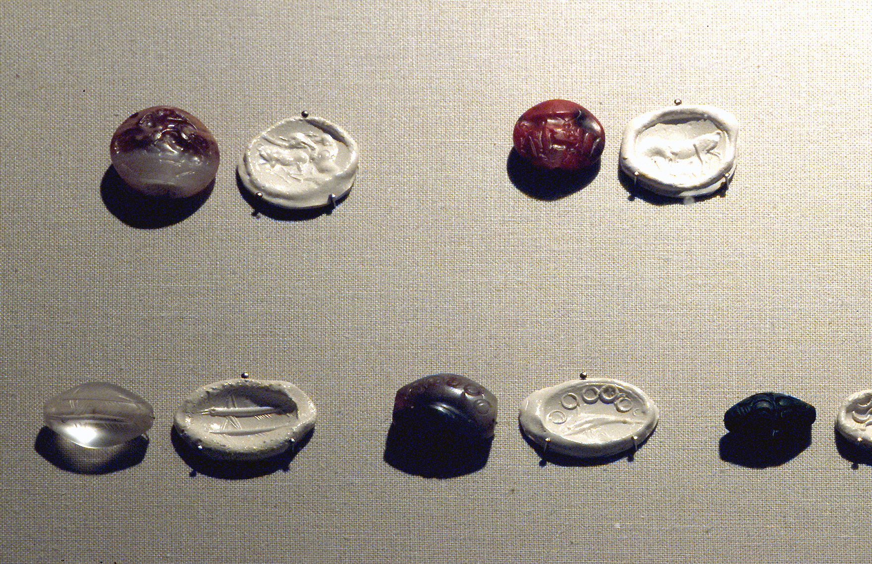 Minoan Seals. The Minoan sealstone (device); many other types of Minoan stamping seals exist.